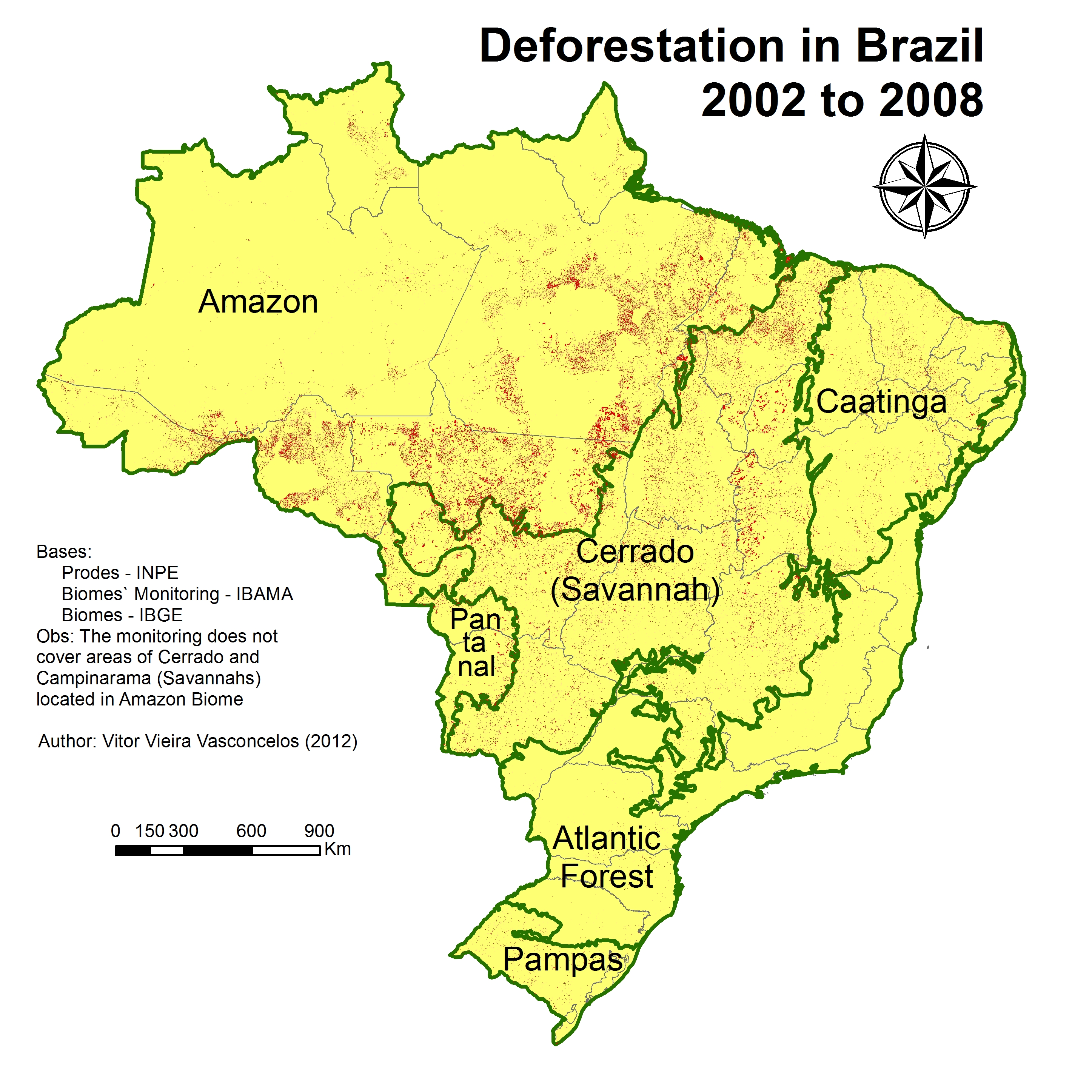 Map of Deforestation in Brazil, from 2002 to 2008, for each Biome. Bases: Prodes (INPE) and Biomes`s Monitoring (IBAMA). Note: The monitoring does not cover areas of Cerrado and Campinarama (Savannahs) located in Amazon Biome. Author: Vitor Vieira Vasconcelos (2012)